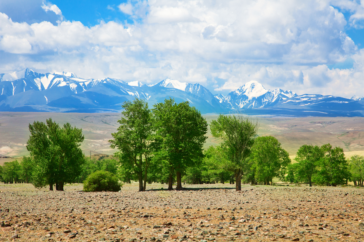 Poplars near the riverbed tydtuyaryka